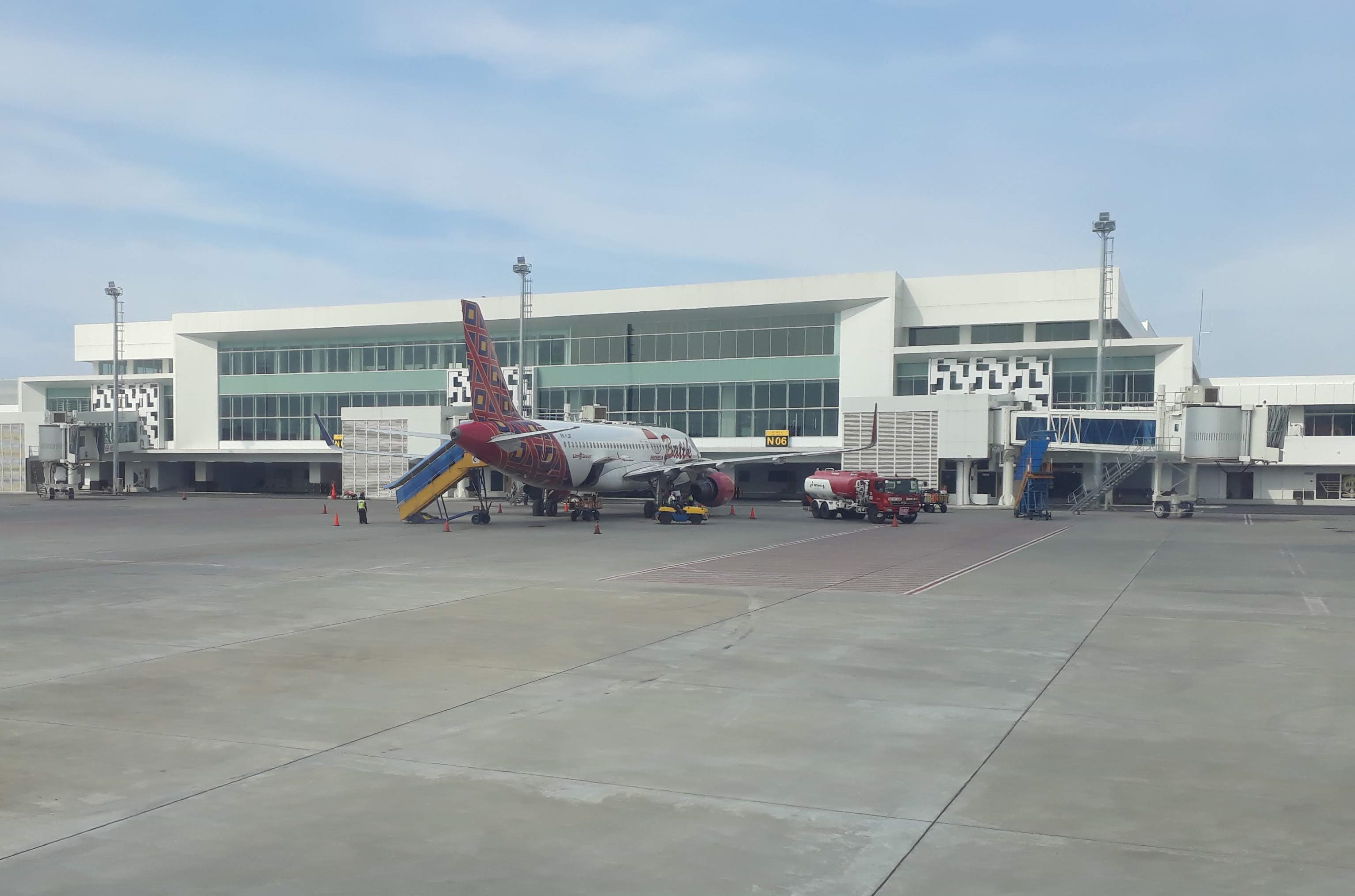 The new terminal building at Ahmad Yani Airport, Semarang, Central Java, Indonesia